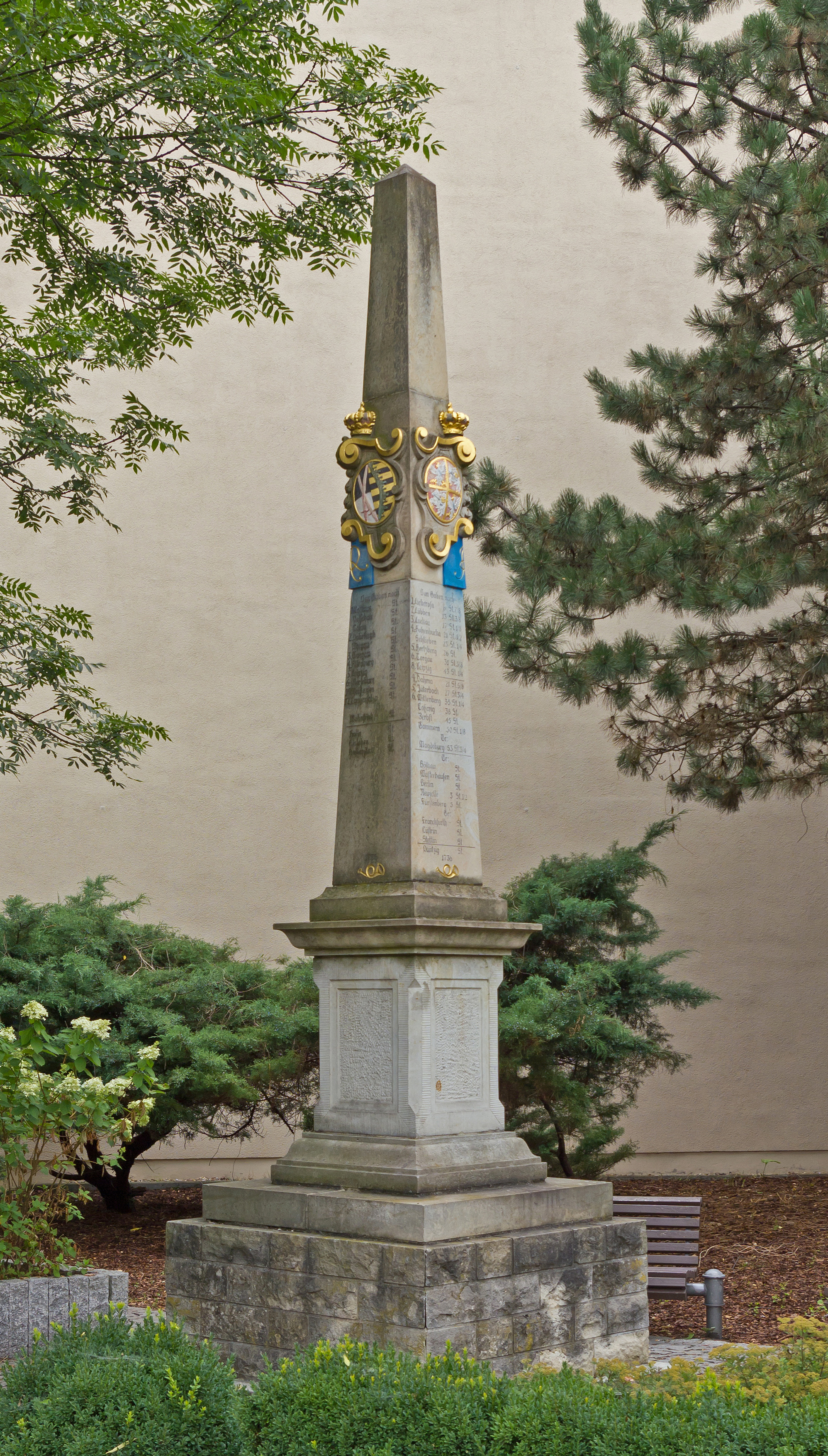 Post milestone in Guben, Brandenburg, Germany